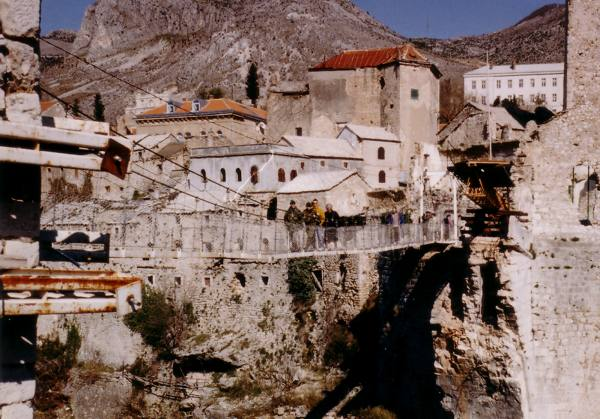 Ruined Stari Most in Mostar in 1998